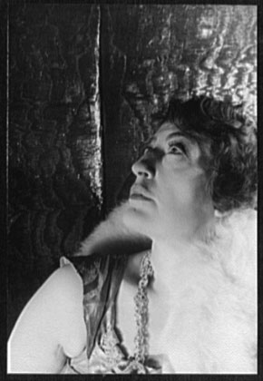 Constance Collier photo taken by Carl Van Vechten, photographer. Constance Collier